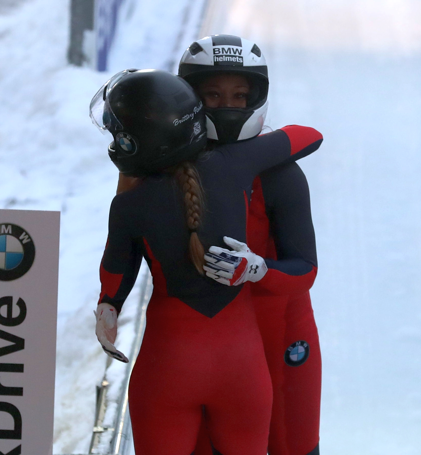 2-man Bobsleigh Women's World Cup race at the 2018/19 Bobsleigh World Cup in Altenberg